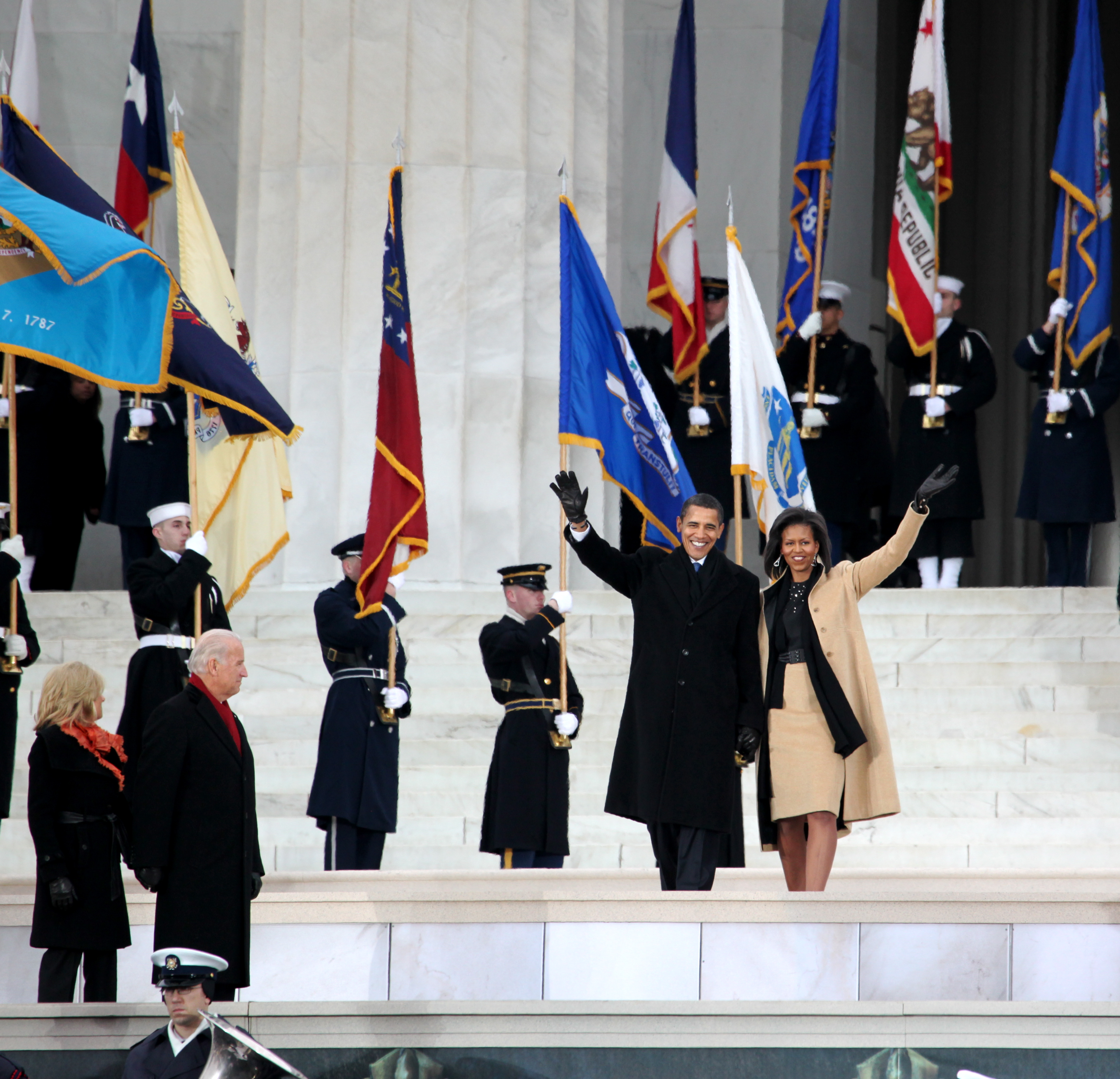 Barack Obama and Michelle Obama at the Barack Obama 2009 presidential inauguration concert event